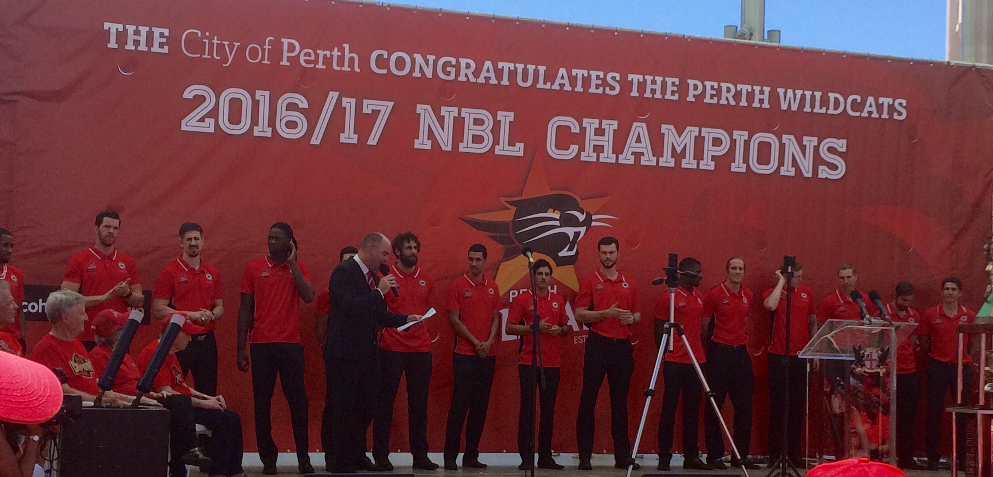 Perth Wildcats 2017 championship team